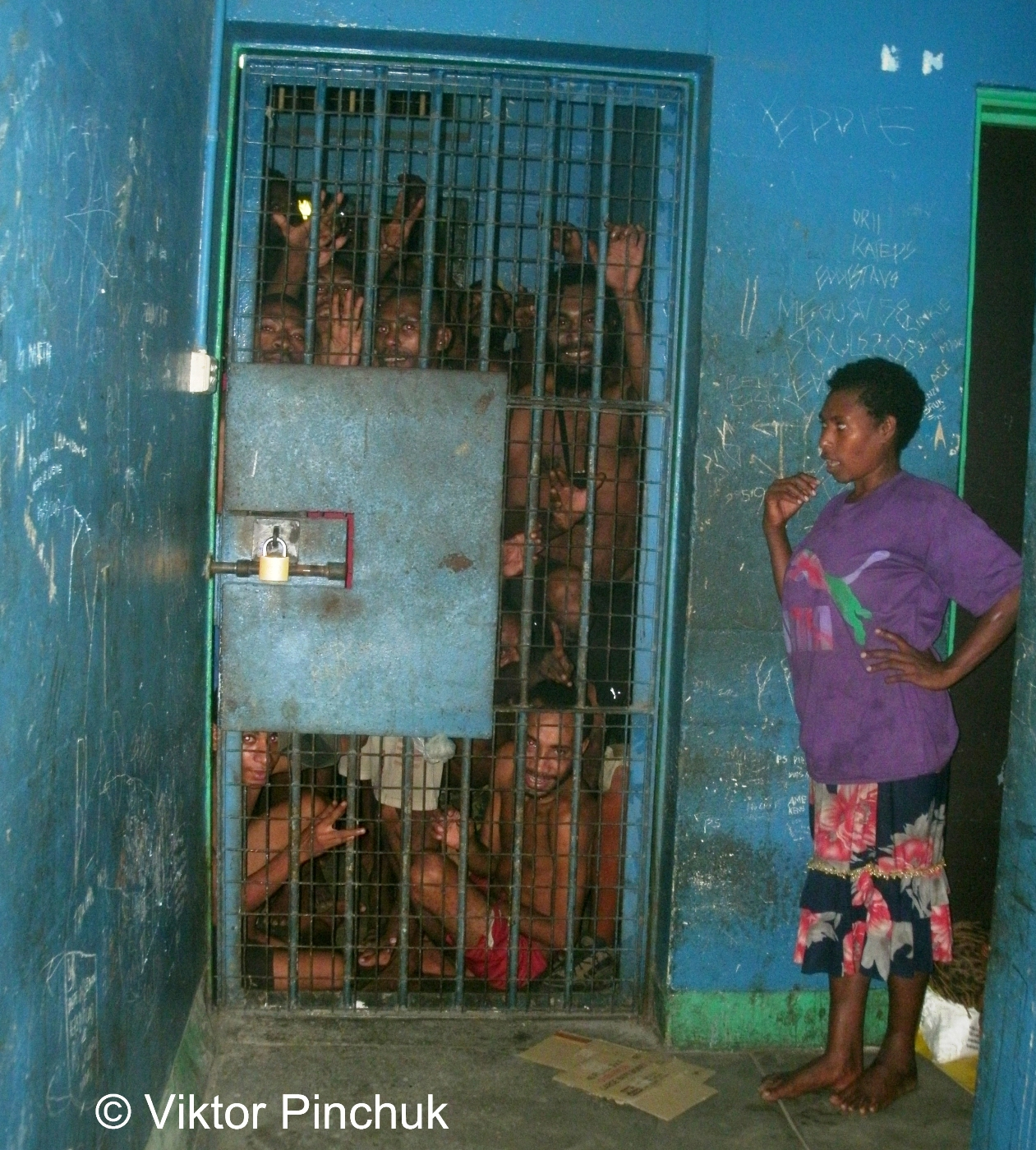 Photo from the book Pinchuk V. “Six months on the islands ...”, p. 138, ISBN 978-5-9908234-0-2, © Viktor Pinchuk, 2016.